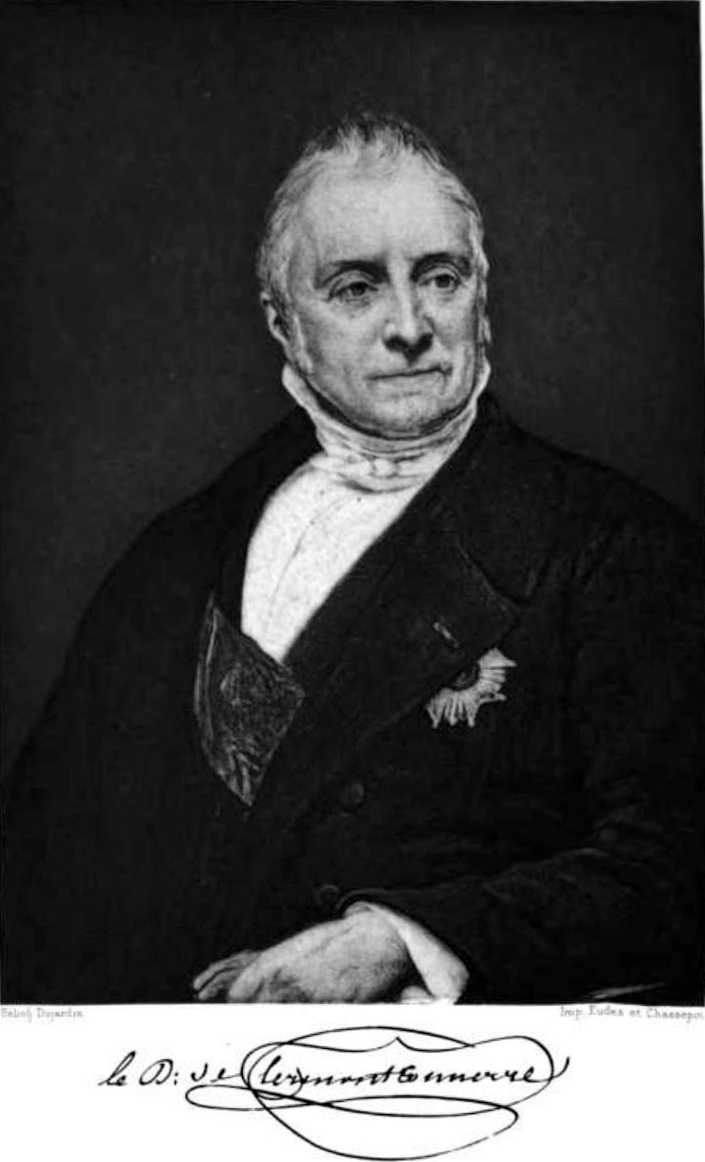 Aimé Marie Gaspard de Clermont-Tonnerre (1779-1865), French soldier and politician.